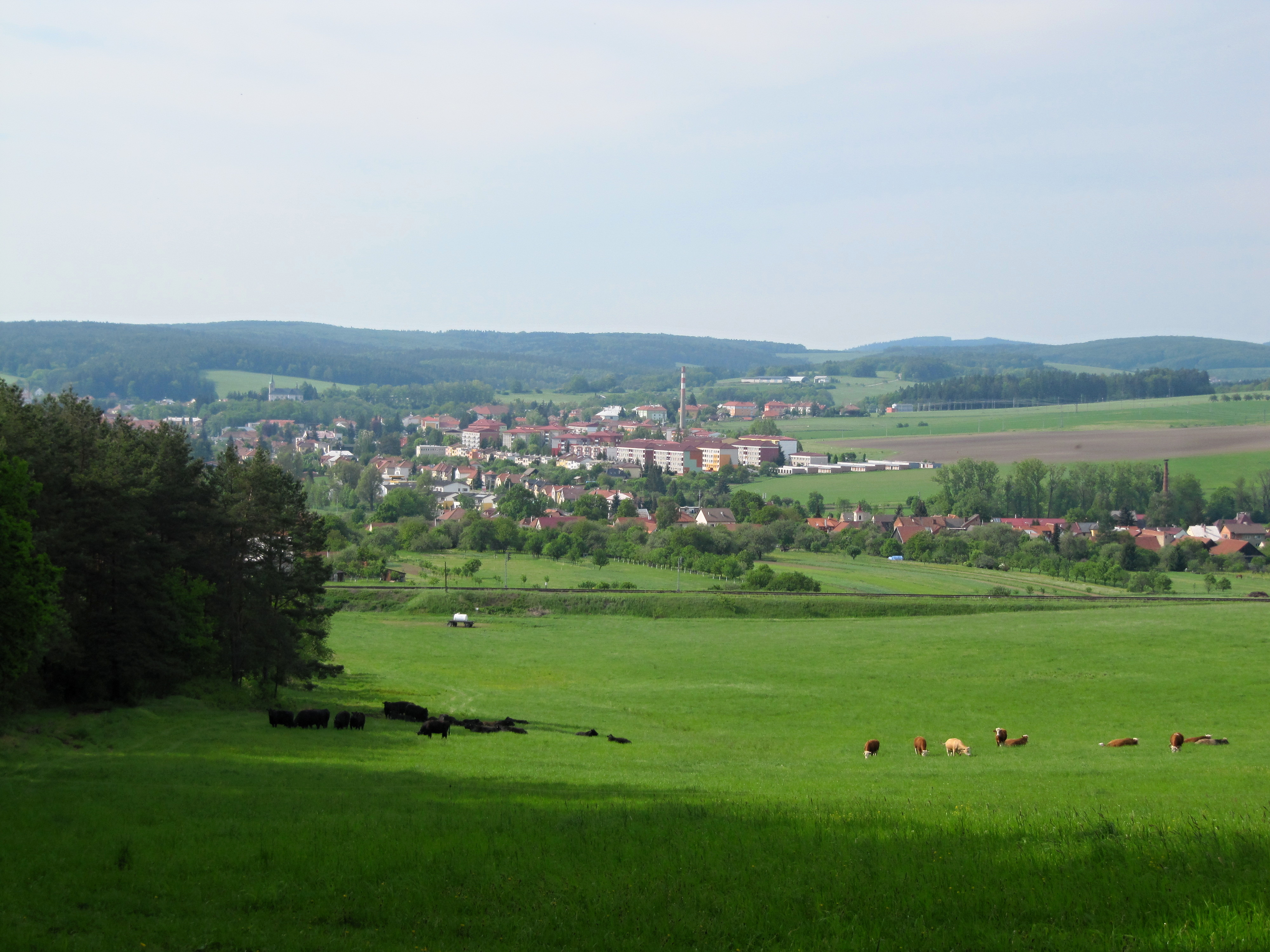 Slavičín, Zlín District, Czech Republic.